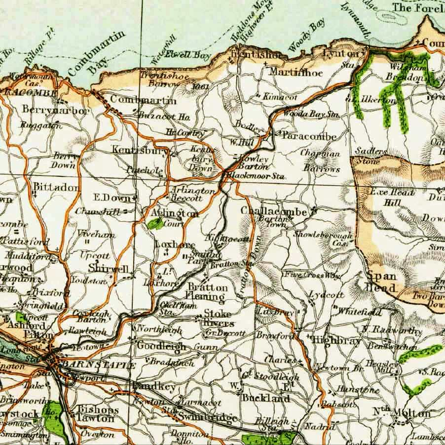 Extract from a 19th Century map of the route of the Lynton & Barnstaple railway (1898-1935)